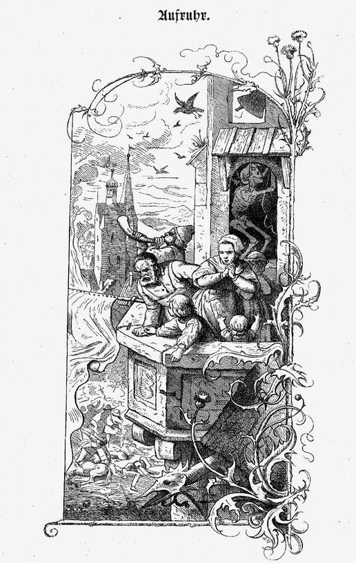 illustration of Friedrich Schiller's "Song of the Bell" (German: "Das Lied von der Glocke")